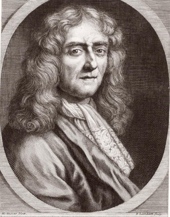 Jean Desmarets de Saint-Sorlin, (1595-1676) French playwright and writer